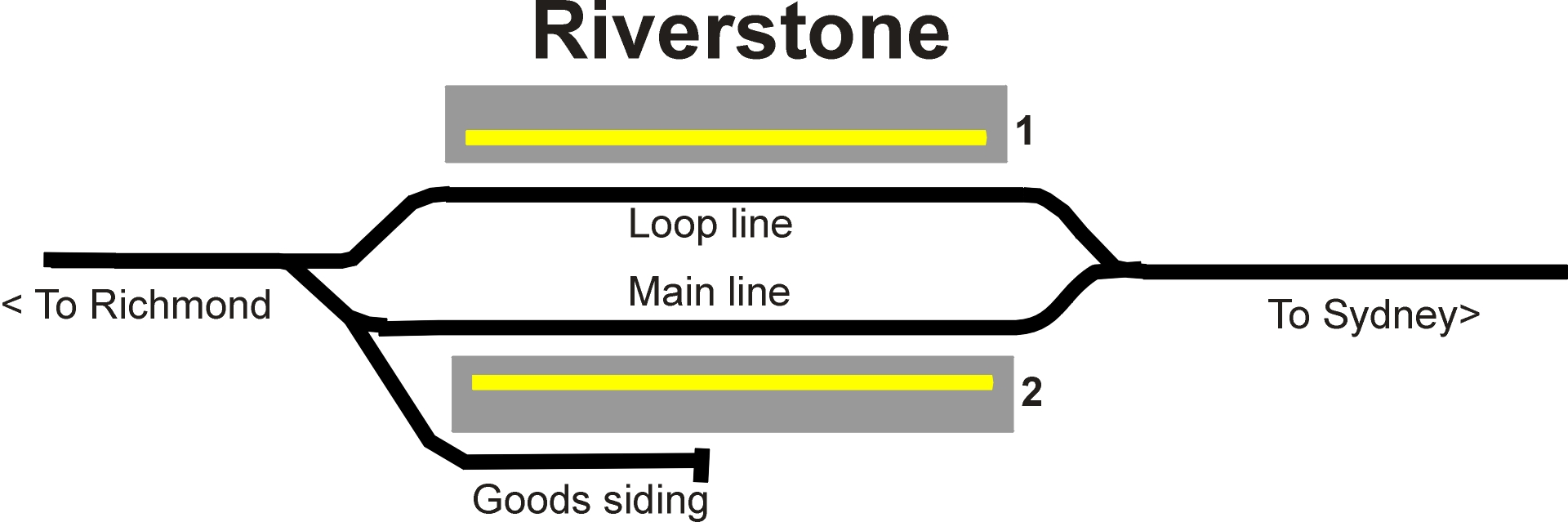 Track layout at Riverstone railway station, Sydney, on the Richmond Line in Sydney, Australia